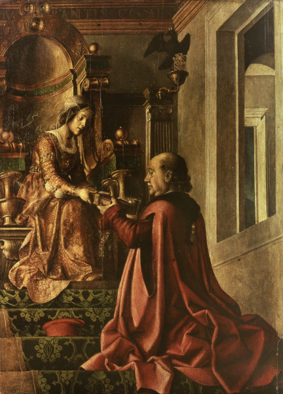 'The Dialectic', by Melozzo da Forlì (attributed), ca. 1474-1475. The painting was destroyed or disappeared in Berlin in May 1945, in the Friedrichshain flak tower fire. - Dimensions: 150 x 110 cm